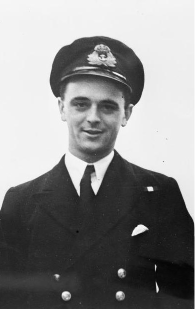 Photograph of Leading Seaman Ian Edward Fraser VC